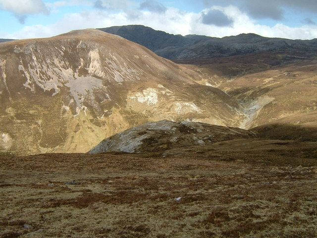 Hillside above the Bone Caves The limestone of the Bone Caves crag is ahead, with the valley cut by the Allt nan Uamh leading up towards the slopes of Breabag.